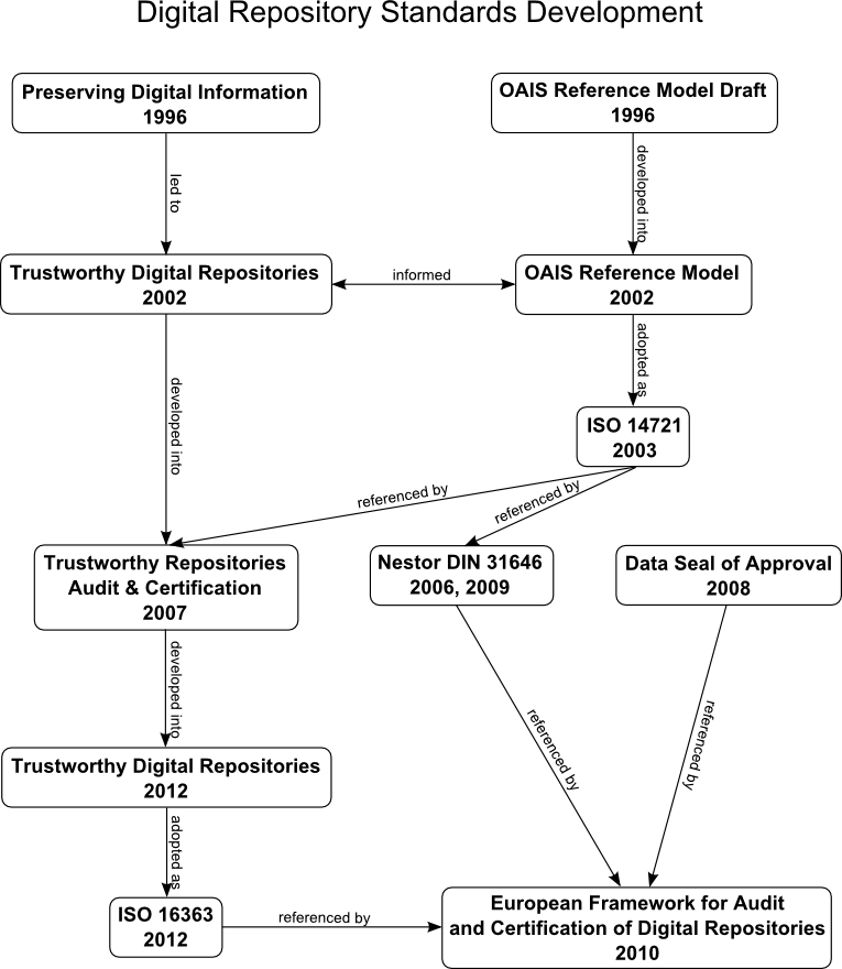 A diagram of the development of digital repository standards including OAIS (ISO 14721) and TDR (ISO 16363).